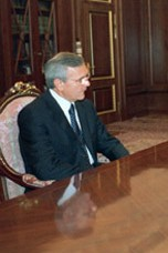 TAS24: MOSCOW, RUSSIA. SEPTEMBER 21. Russian President Vladimir Putin (C) meets with Yanis Yurkans (L), head of the Latvian Saeima Group for cooperation with Russia and Dmitry Rogozin (R), Chairman of the International Committee of the State Duma, on Saturday. During the meeting President Putin expressed his conviction that Russia's relations with Latvia can develop as positively as with its other European partners. (Photo ITAR-TASS / Vladimir Rodionov) -----ТАС 41. Россия. Москва. Сегодня состоялась встреча президента РФВладимира Путина (на снимке в центре) с руководителем группы по сотрудничеству с Россией латвийскогосейма Янисом Юркансом (слева) и председателем Международного комитета Госдумы РФ Дмитрием Рогозиным (справа). В.Путин высказал убеждение, что Россия может выстраивать отношения с Латвией не хуже, чем с другими европейскими партнерами. Фото Владимира Родионова (ИТАР-ТАСС)